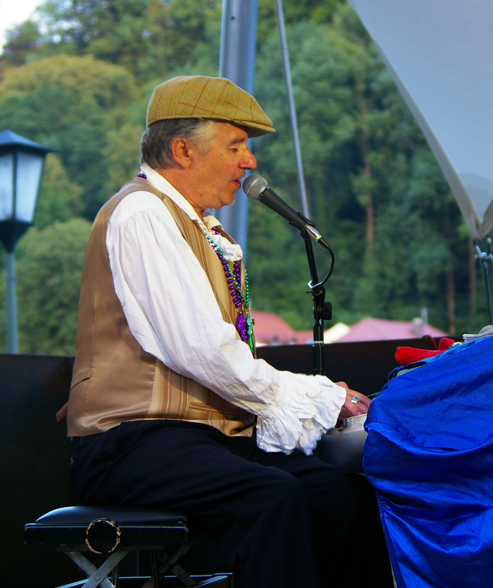 Boogie player Germany